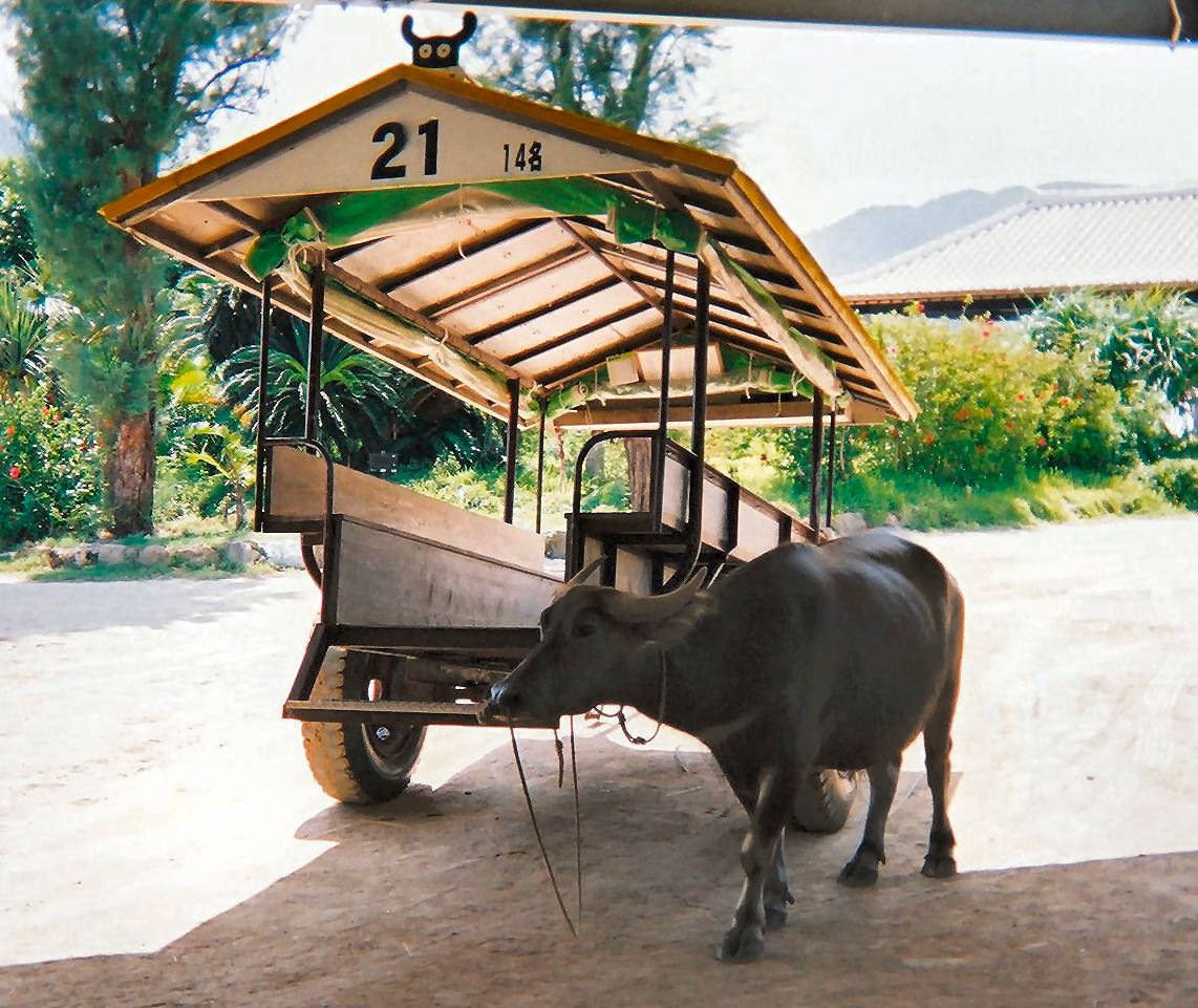 Water buffalo (水牛). Yuhu island (由布島) Japan August 2007.